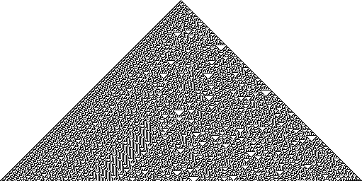 First 256 rows of the elementary cellular automaton Template:Rule 30.